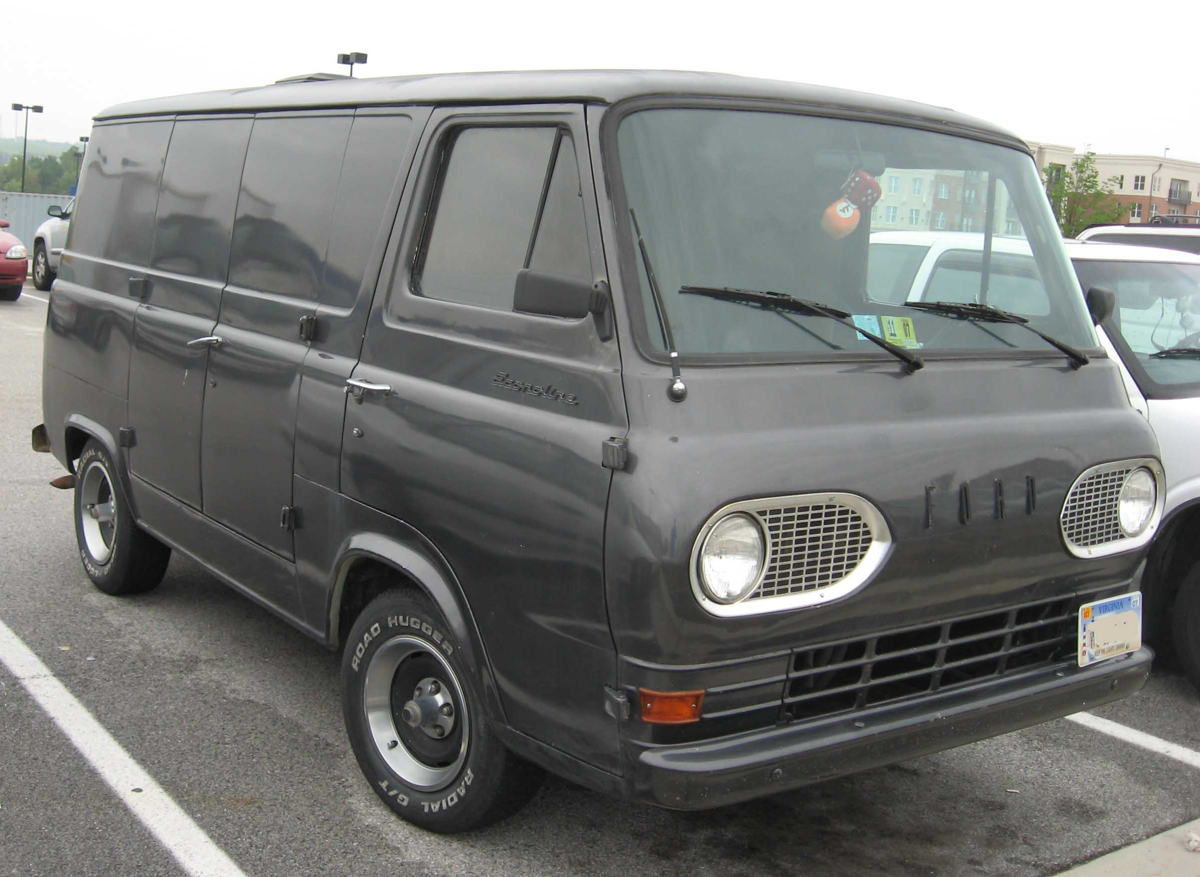 1961-1967 Ford Econoline photographed in College Park, Maryland, USA.